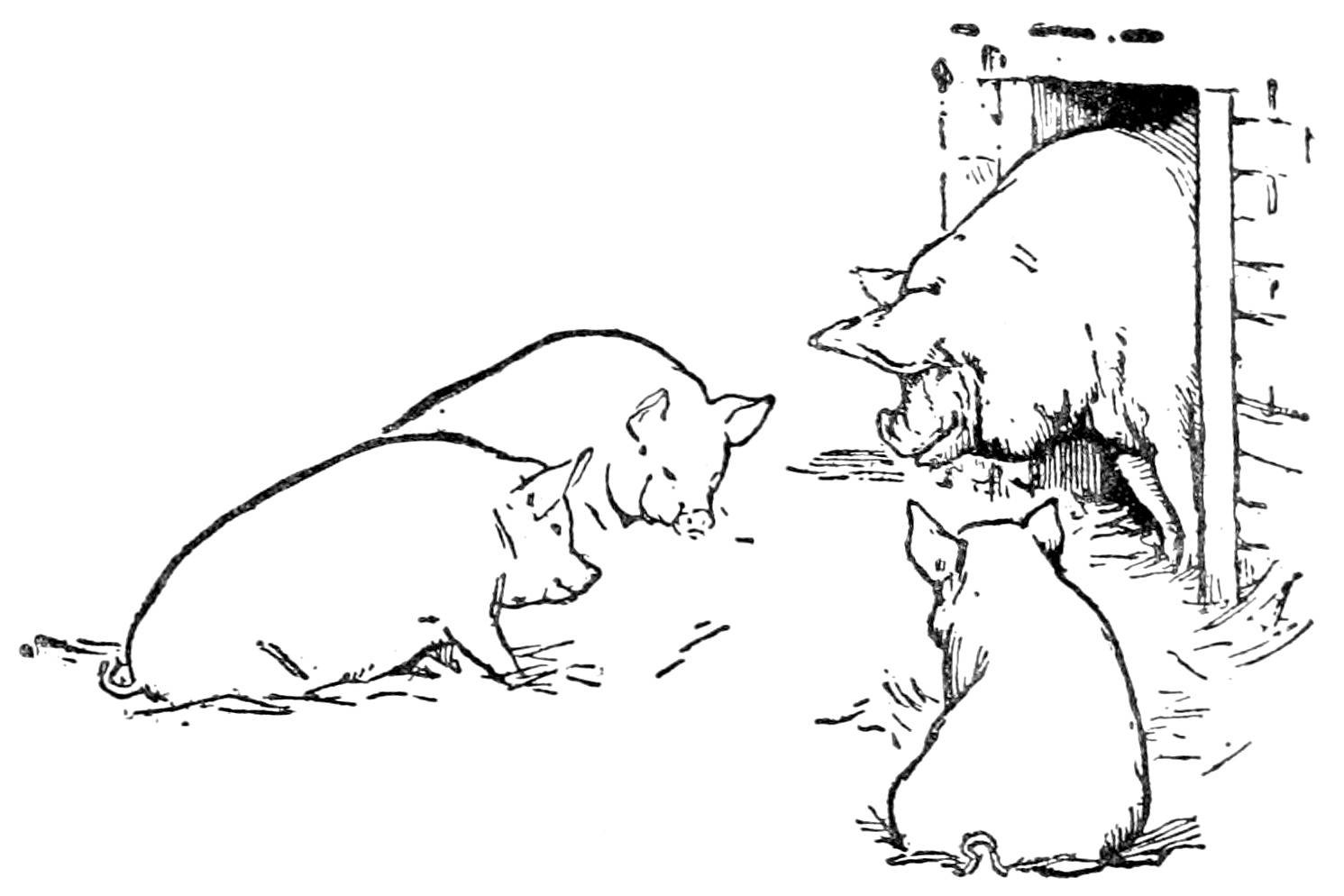 illustration from a book of fairy tales